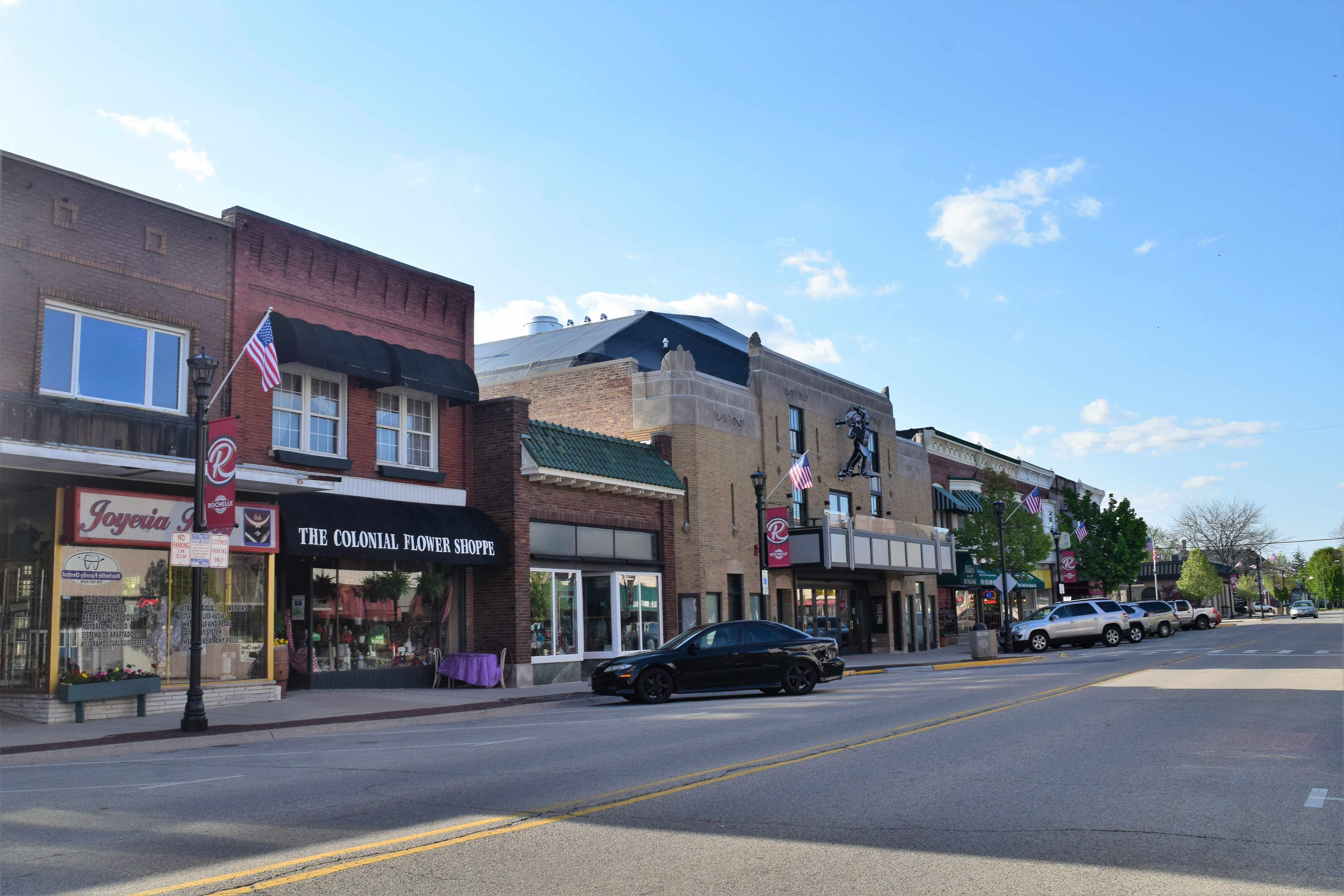 Buildings on the west side of the 400 block of Lincoln Highway in downtown Rochelle, Illinois. The buildings are part of the Rochelle Downtown Historic District, which is listed on the National Register of Historic Places.